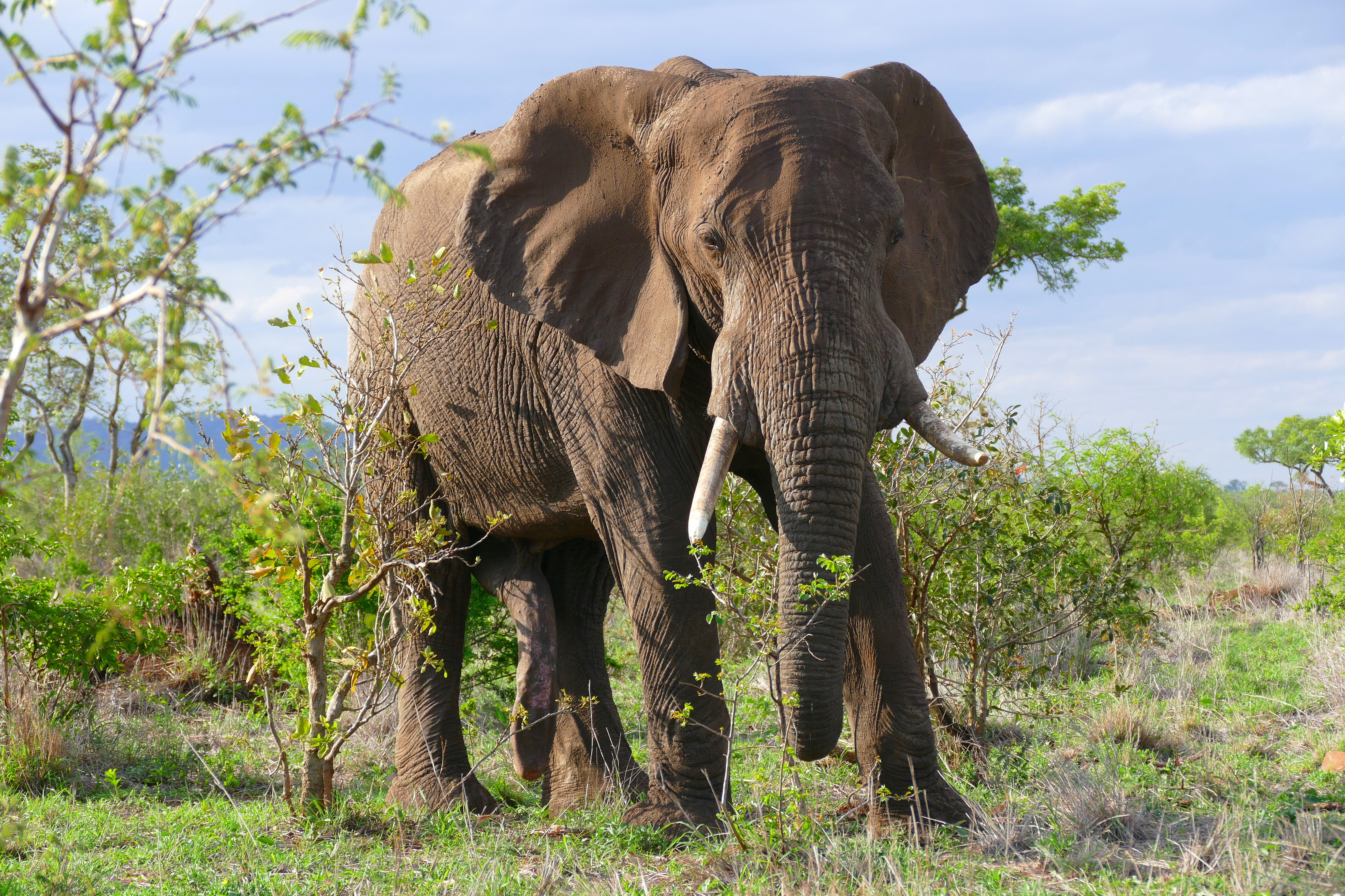 H10 Road North of Lower Sabie, Kruger NP, Mpumalanga, SOUTH AFRICA